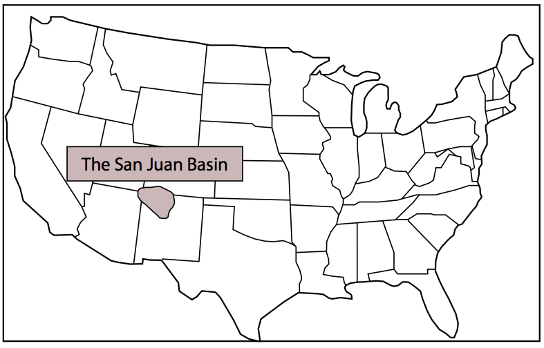 Location of the SJB on a US Map.